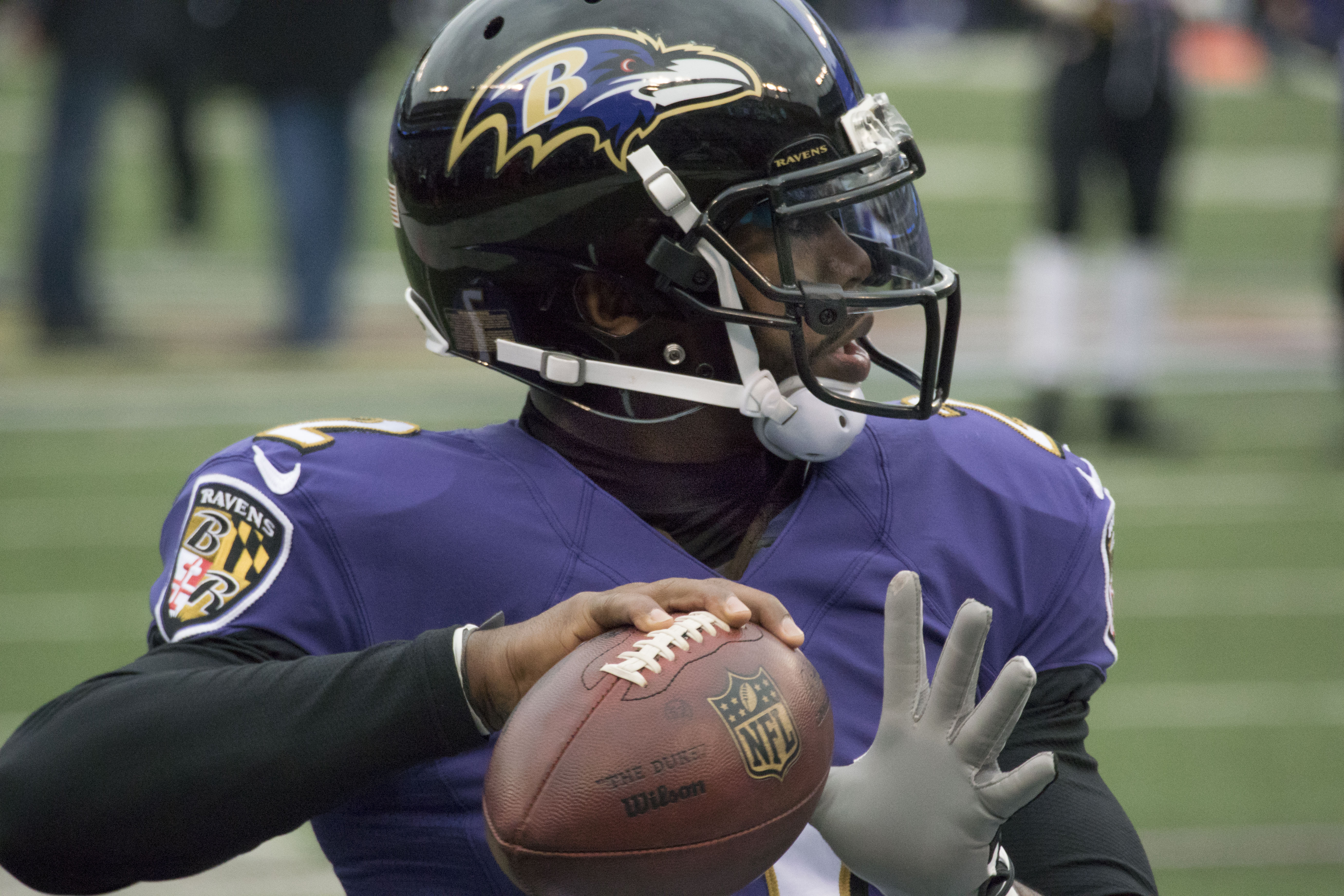 Jaguars at Ravens 12/14/14